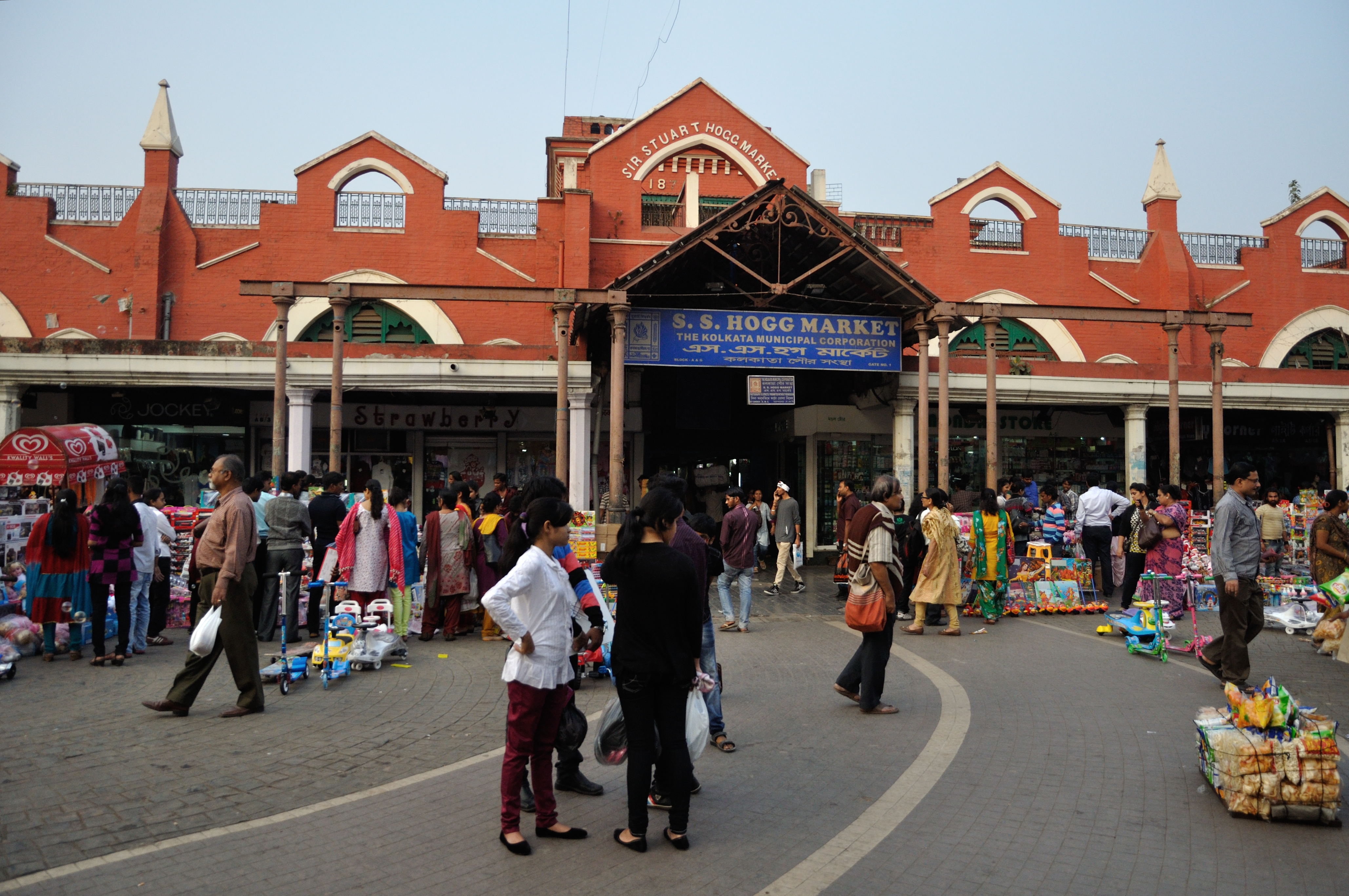 Photographed in Kolkata.